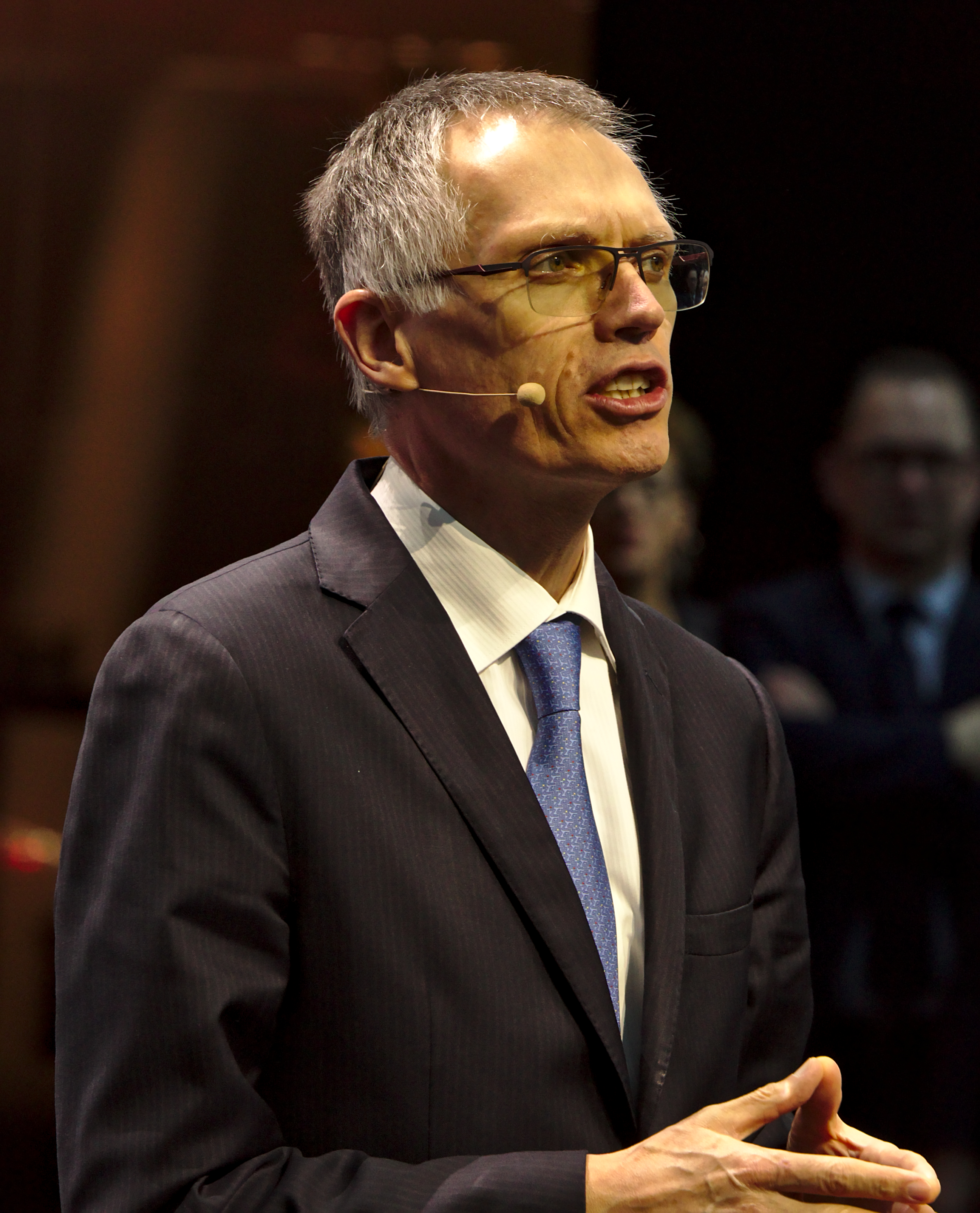 Carlos Tavarez at Geneva Motorshow 2018